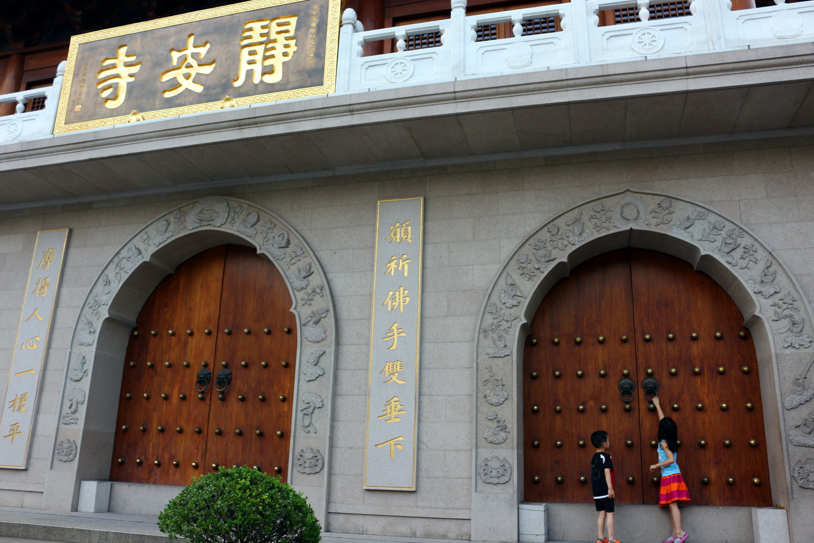 The front gates of Jing'an Temple in Shanghai China